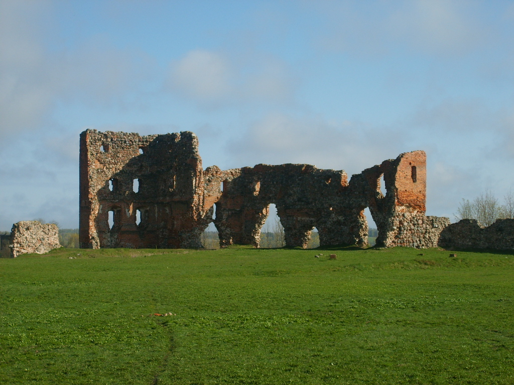 Castle ruins in Ludza.